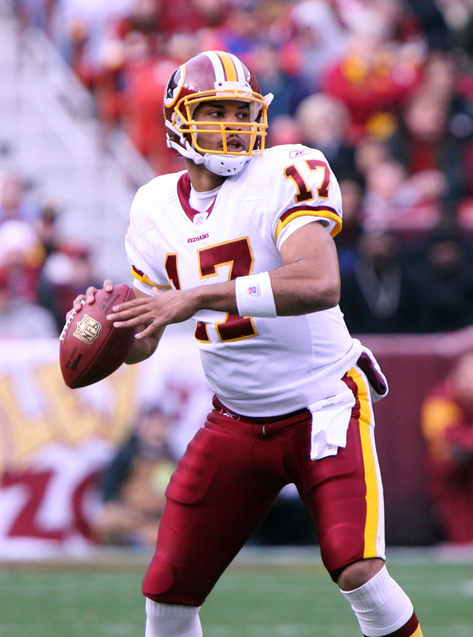 An image of football player Jason Campbell in 2006 with the Redskins.